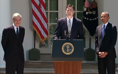 "James Comey speaks at the White House following his nomination by President Barack Obama to be the next director of the FBI when Director Robert S. Mueller’s term ends on September 4."